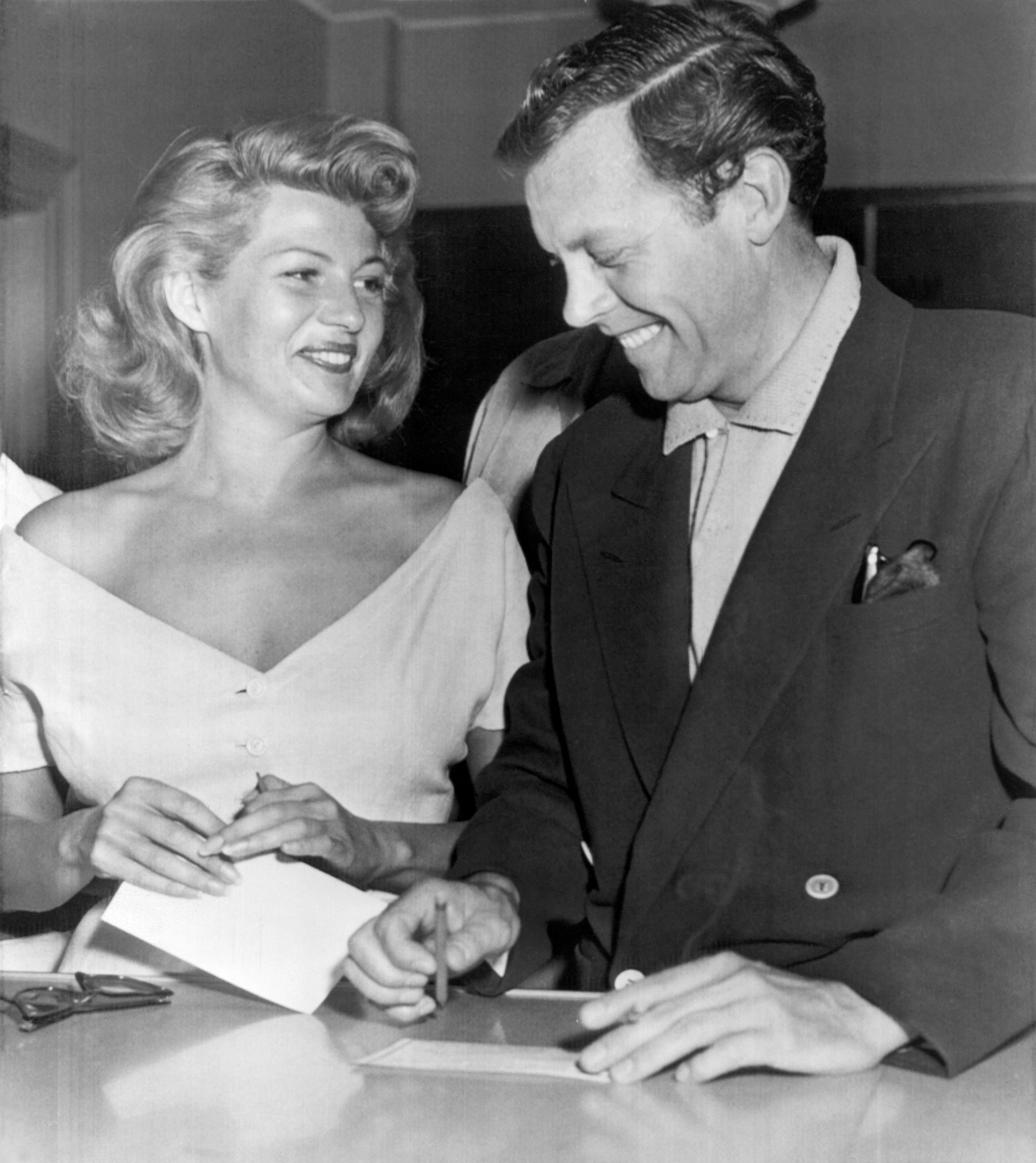 Photograph of Rita Hayworth and Dick Haymes obtaining their marriage license Caption reads as follows: LAS VEGAS, Nev., Sept. 23—RITA AND DICK GET LICENSE—Demurely dressed in a aqua blue cotton dress Rita Hayworth appears with Dick Haymes at the county clerks office here today where they obtained a marriage license for their wedding scheduled tomorrow. Haymes earlier received his divorce from Nora Eddington, just down the hall in the same building.